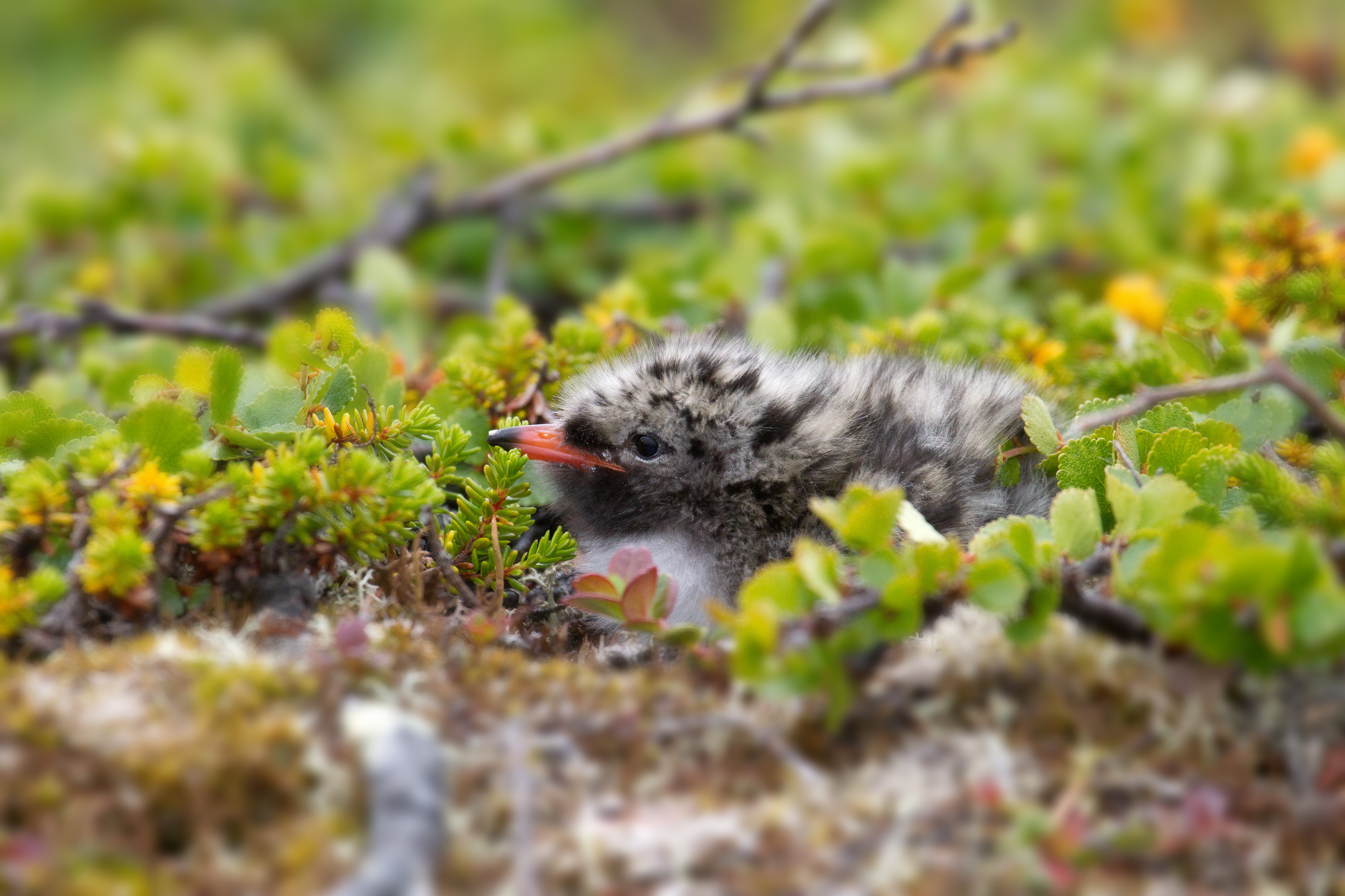 Arctic Tern chick in Finnmark, Norway.